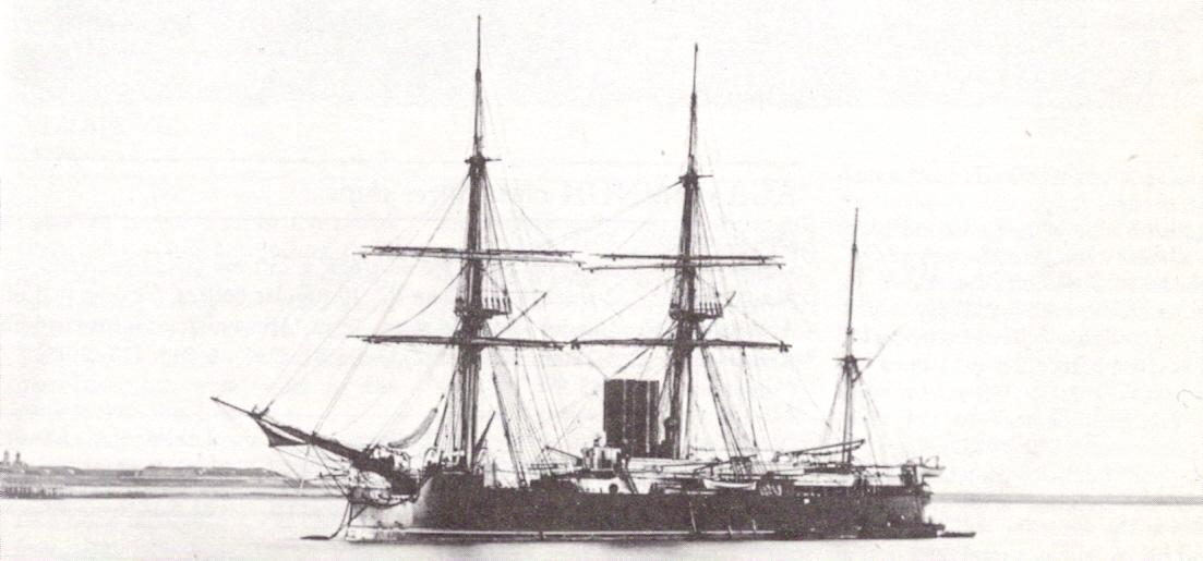 Photograpoh of British masted turret ship HMS Neptune as she appeared when completed.